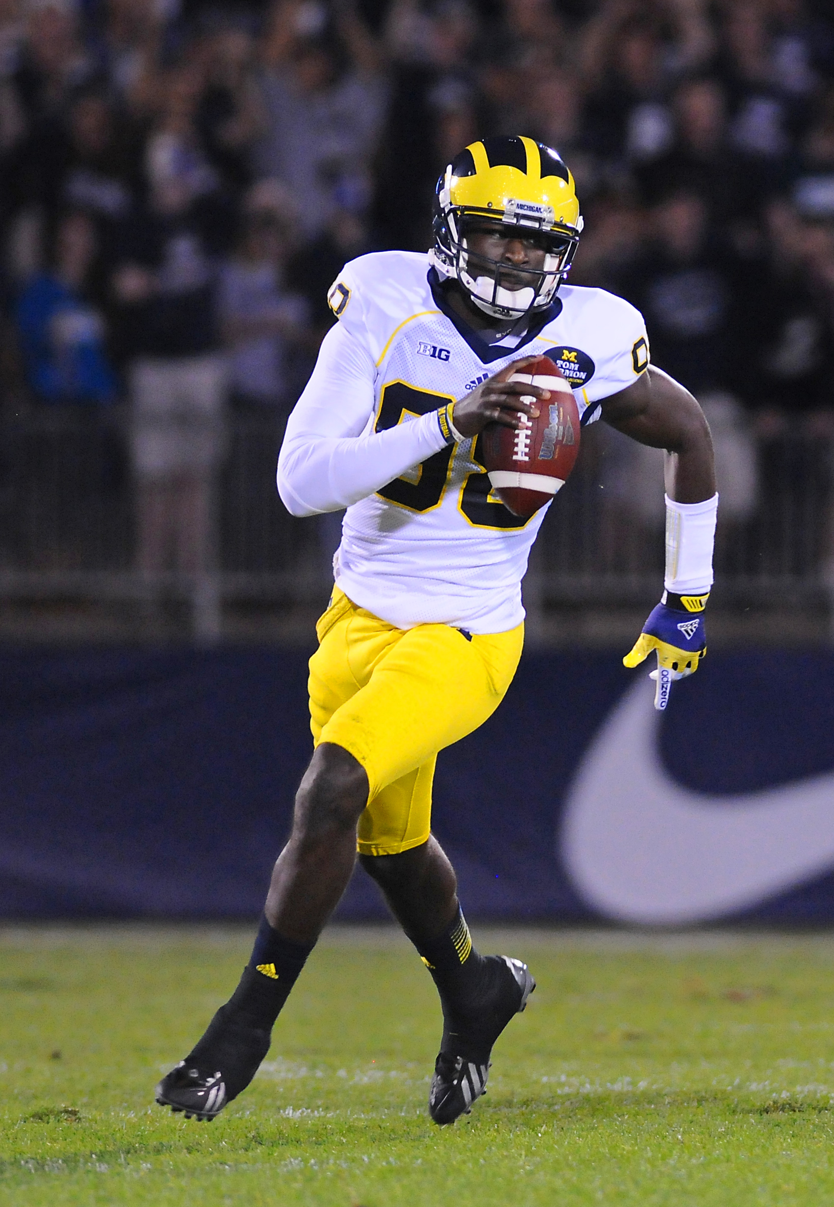 Devin Gardner of Michigan with the ball (Adam Glanzman/Daily)